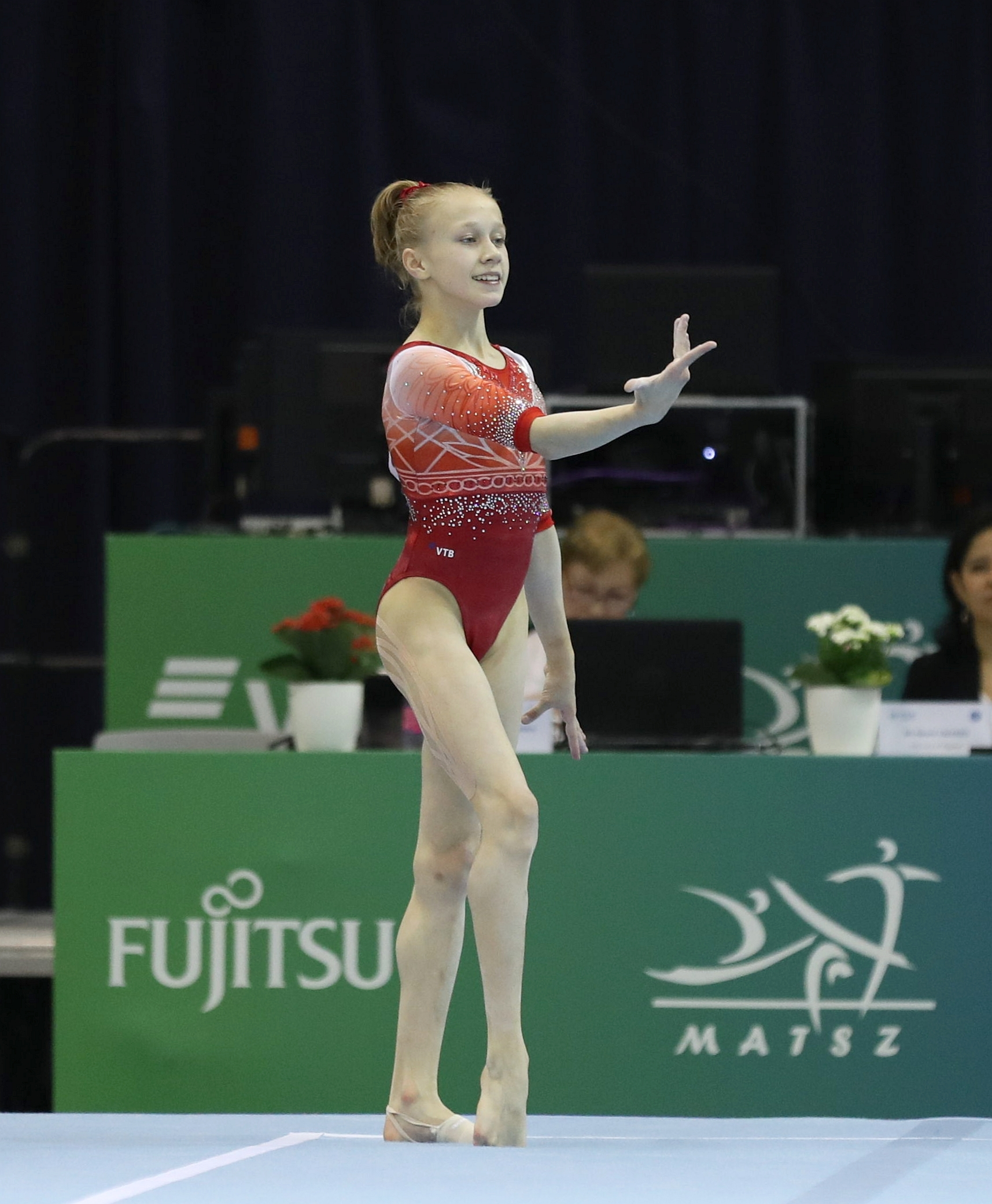 Floor exercise of subdivision 2 during the girls' all-around competition at the 1st FIG Artistic Gymnastics Junior World Championships on 28 June 2019 in Győr, Hungary. Depicted: Viktoriia Listunova.